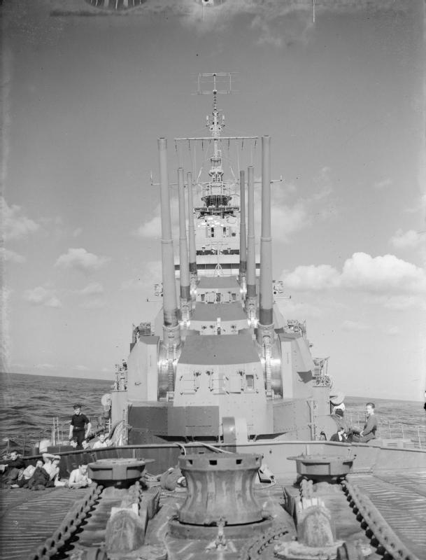 The Royal Navy during the Second World War View looking aft down the cruiser HMS ARGONAUT's focsle showing the three forward twin 5.25 inch Mark II mountings (containing 2 x 5.25 inch Mark I guns) with the guns at maximum elevation during North African operations.